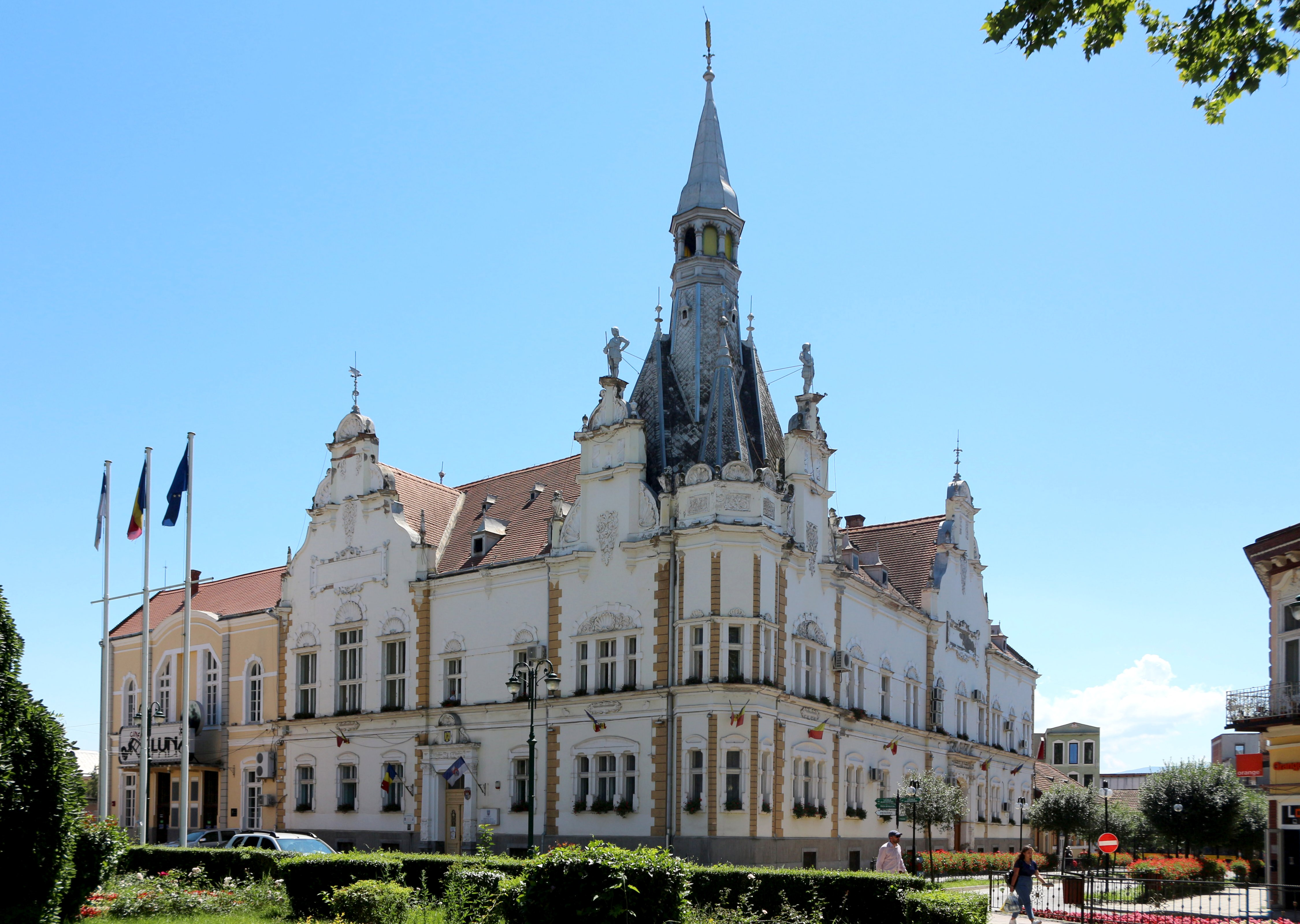 The city hall, Revoluției Sq., no. 3, Caransebeș, Romania, built 1903.